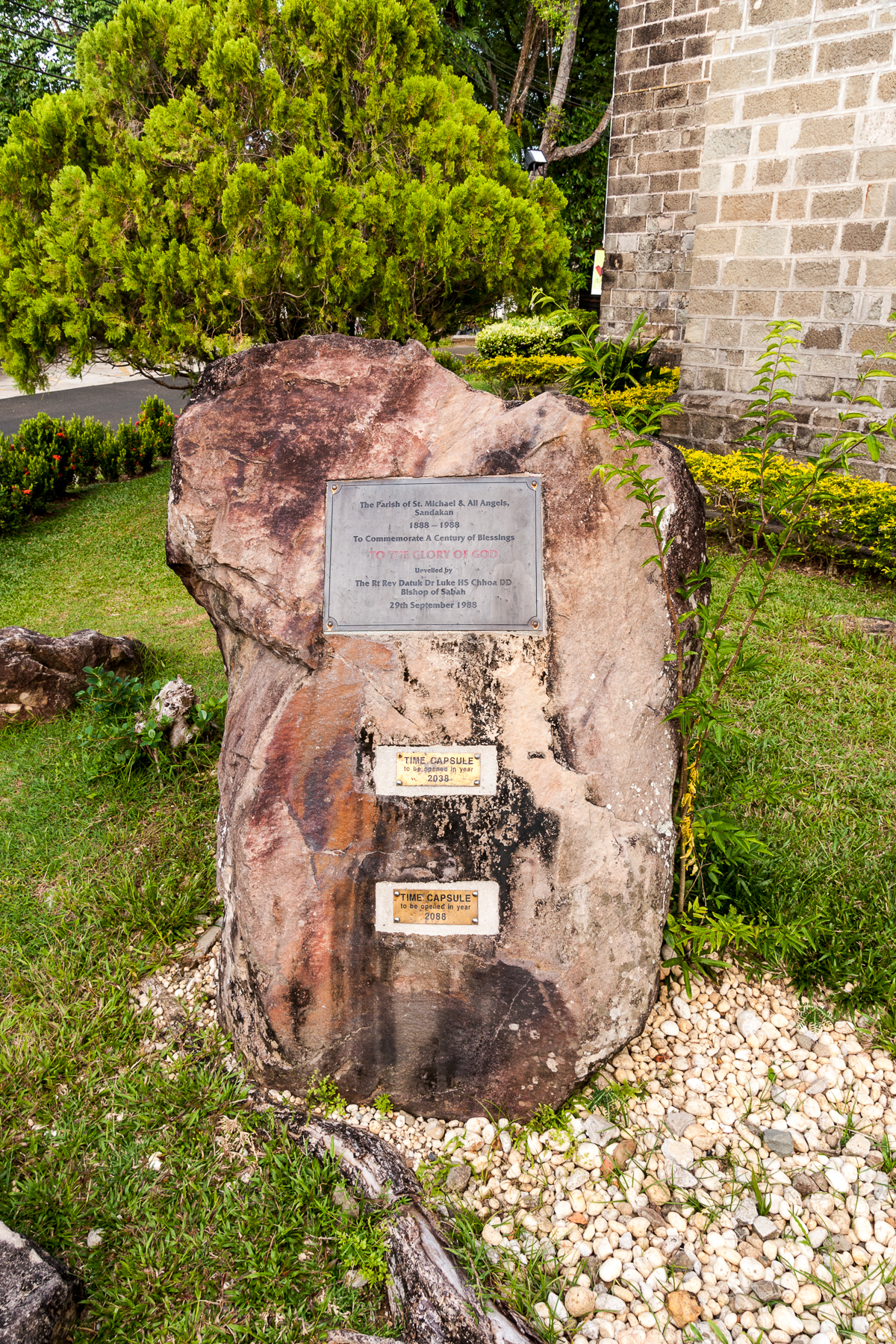 Sandakan, Sabah: Memorial "100 years Gereja St. Michael" with time capsule in Sandakan